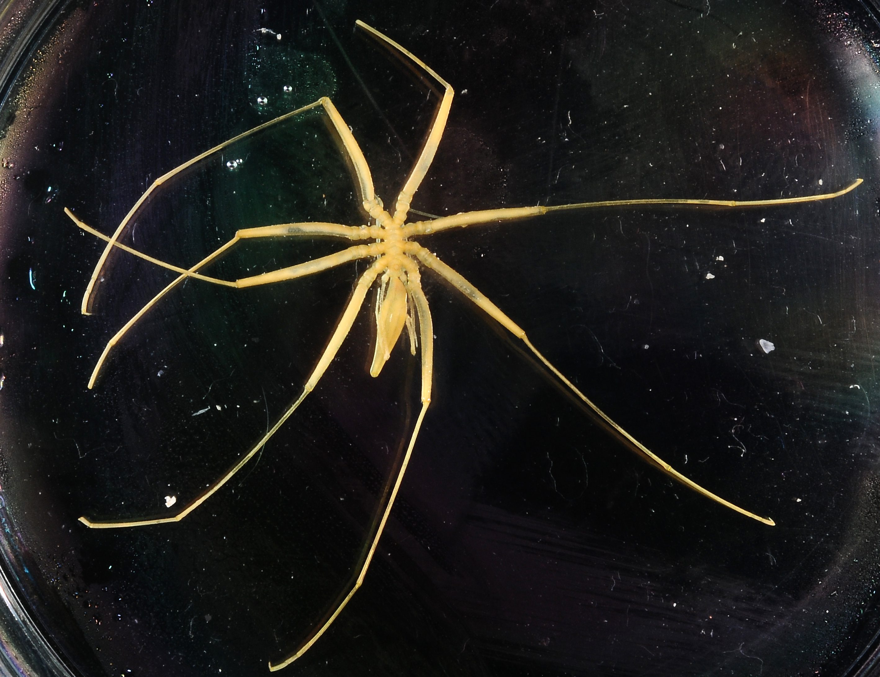 PRESERVED_SPECIMEN; Hedgpethia tibialis Stock, 1991 ; Type status: HOLOTYPE; Identified by: Stock; Individual Count: 1 ; Event date: 1985-09-19T15:38:00Z